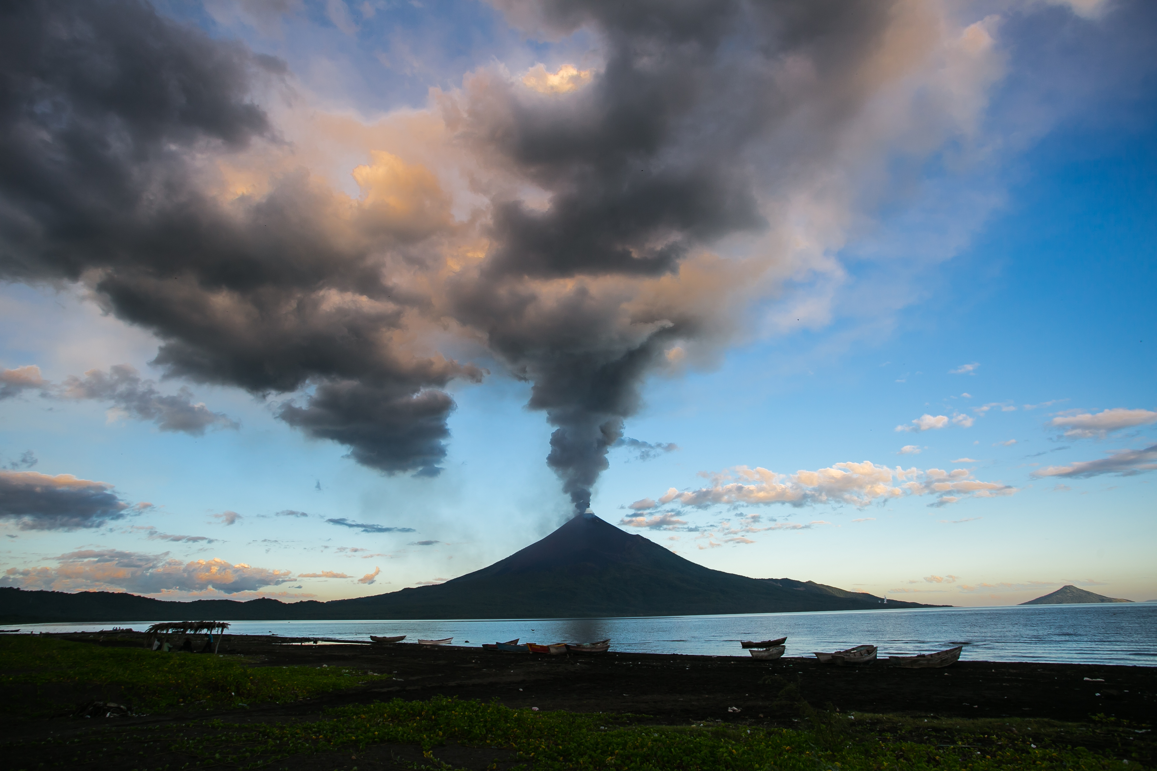 Momotombo volcano eruption. 2 December 2015. Photographed from the shore of Lake Managua in or near the town of Puerto Momotombo